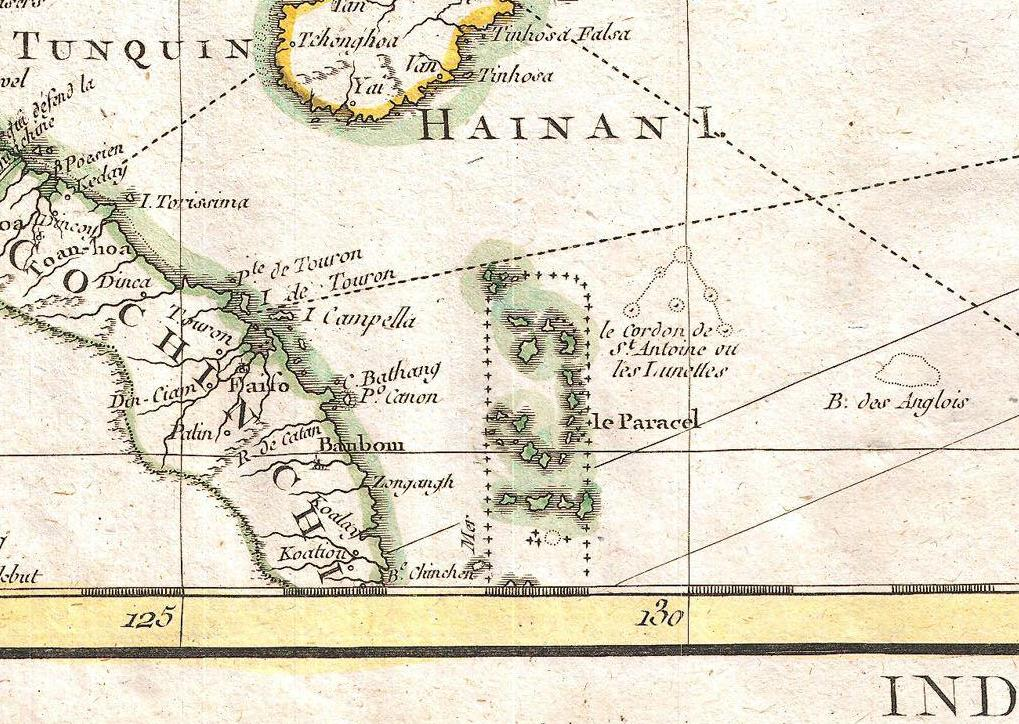 "Le Paracel" off the eastern coast of Vietnam in a 1771 Rigobert Bonne Map of Tonkin (Vietnam) China, Formosa (Taiwan) and Luzon (Philippines)